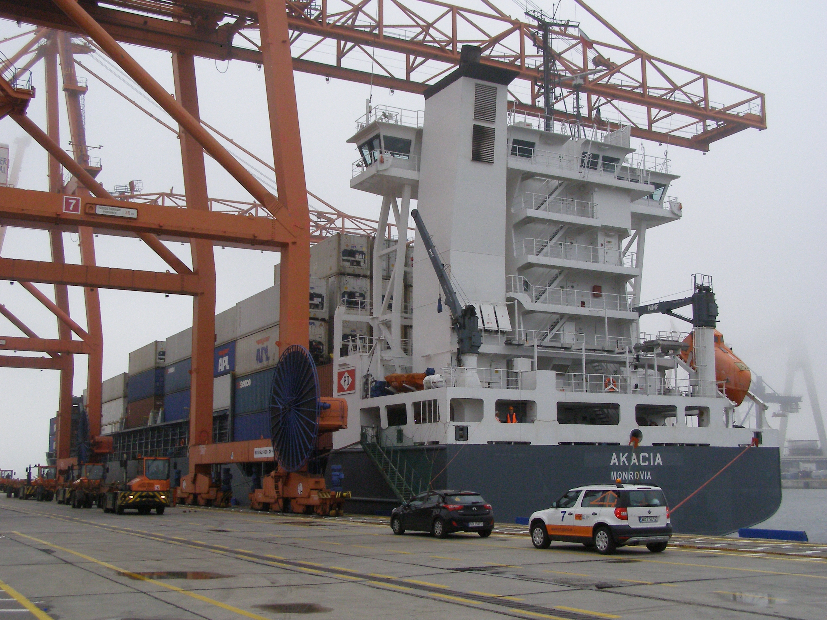 Gdynia - Akacia ship (IMO 9315020) at the Baltic Container Terminal